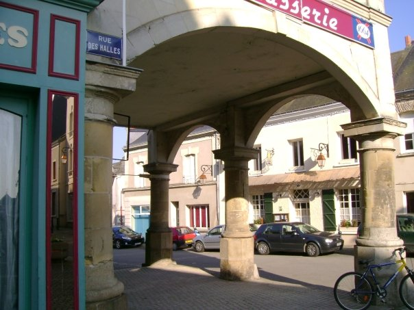 Place des halles, Candé, 49, France